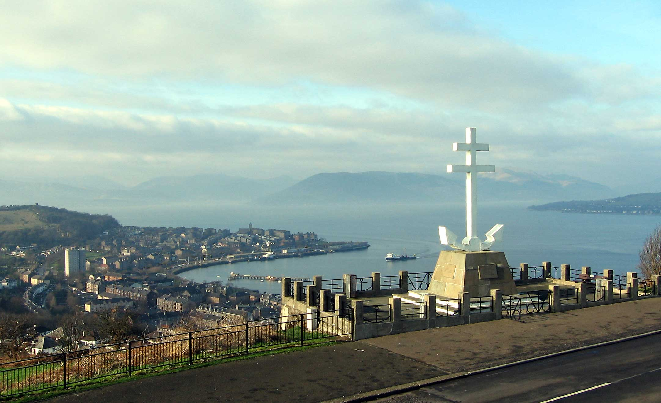 The Free French Memorial on Lyle Hill, Greenock, has views over Gourock and the Firth of Clyde. The Caledonian MacBrayne ferry MV Juno approaches the pier, and MV Saturn is at the pier. The Argyll hills are shrouded in mist. The memorial in the form of a Cross of Lorraine combined with an anchor commemorates the Free French Naval Forces that sailed from the Clyde during the Battle of the Atlantic. photograph taken in February 2006 by User:Dave souza. Any re-use to contain this licence notice and to attribute the work to User:Dave souza at Wikipedia.